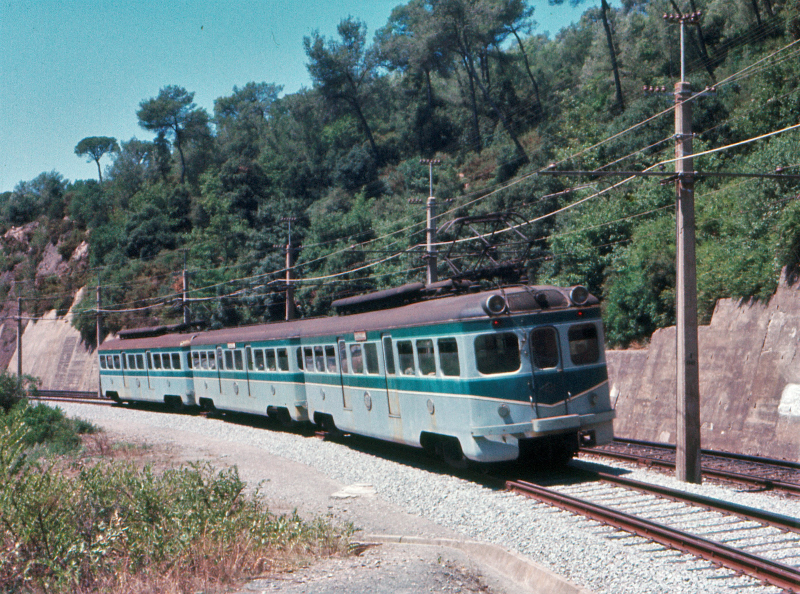 A train of the 400 series of Ferrocarriles de Cataluña S.A. between La Floresta and Les Planes, on the way to Barcelona.